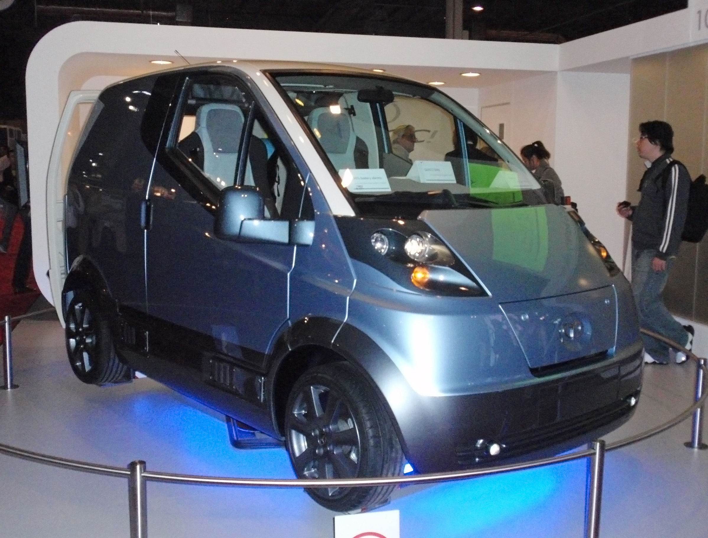 Electric delivery van DuraCar Quicc! DiVa at the 2008 Paris Motor Show